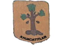 Este es el escudo del poblado de Santa María Ahuacatitlán, es una reproducción tomada de la Ayudantía Municipal